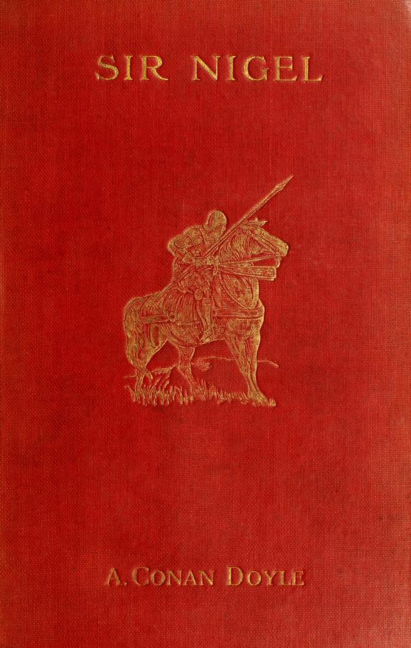 Cover of the novel Sir Nigel by Arthur Conan Doyle